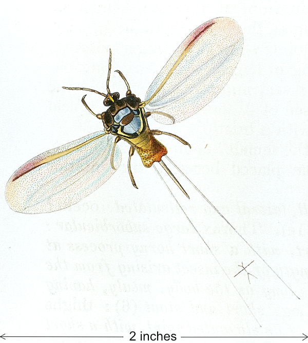 British Entomology, John Curtis. Plate 717 (Detail) - Sycamore Scale-insect. Coccus aceris.